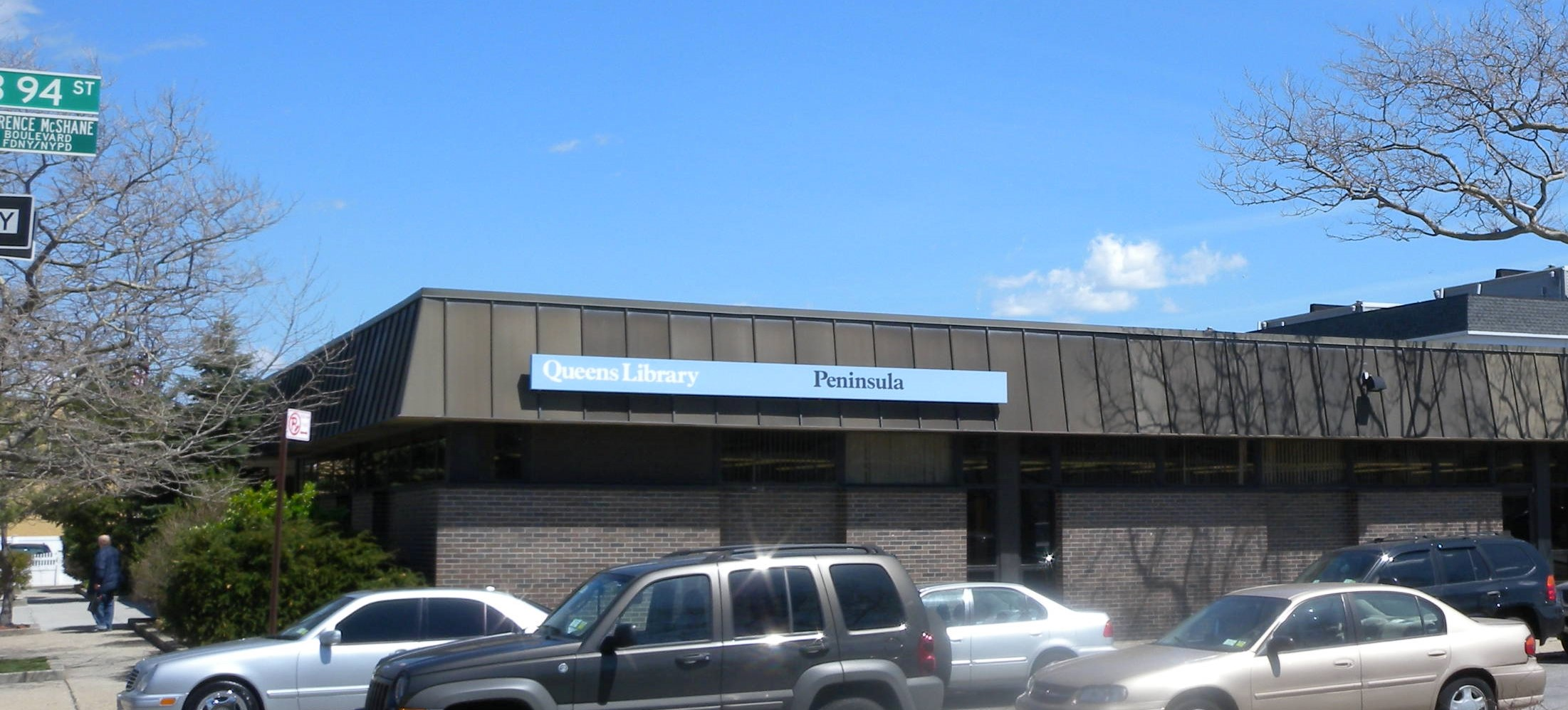 Looking east at library on a sunny midday.